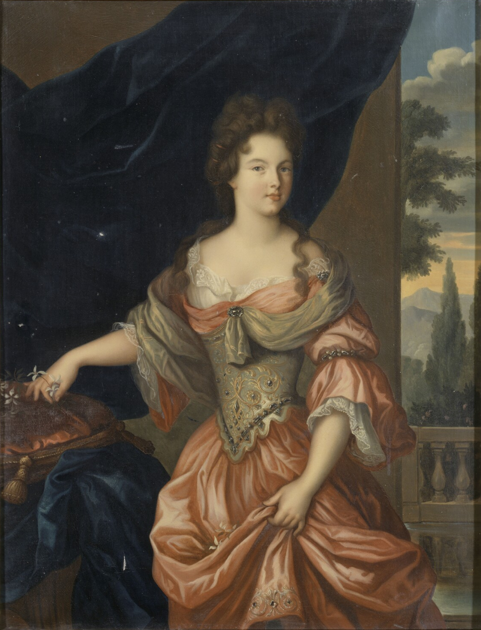 Copy commisioned by Louis-Philippe after an original in the château d'eu